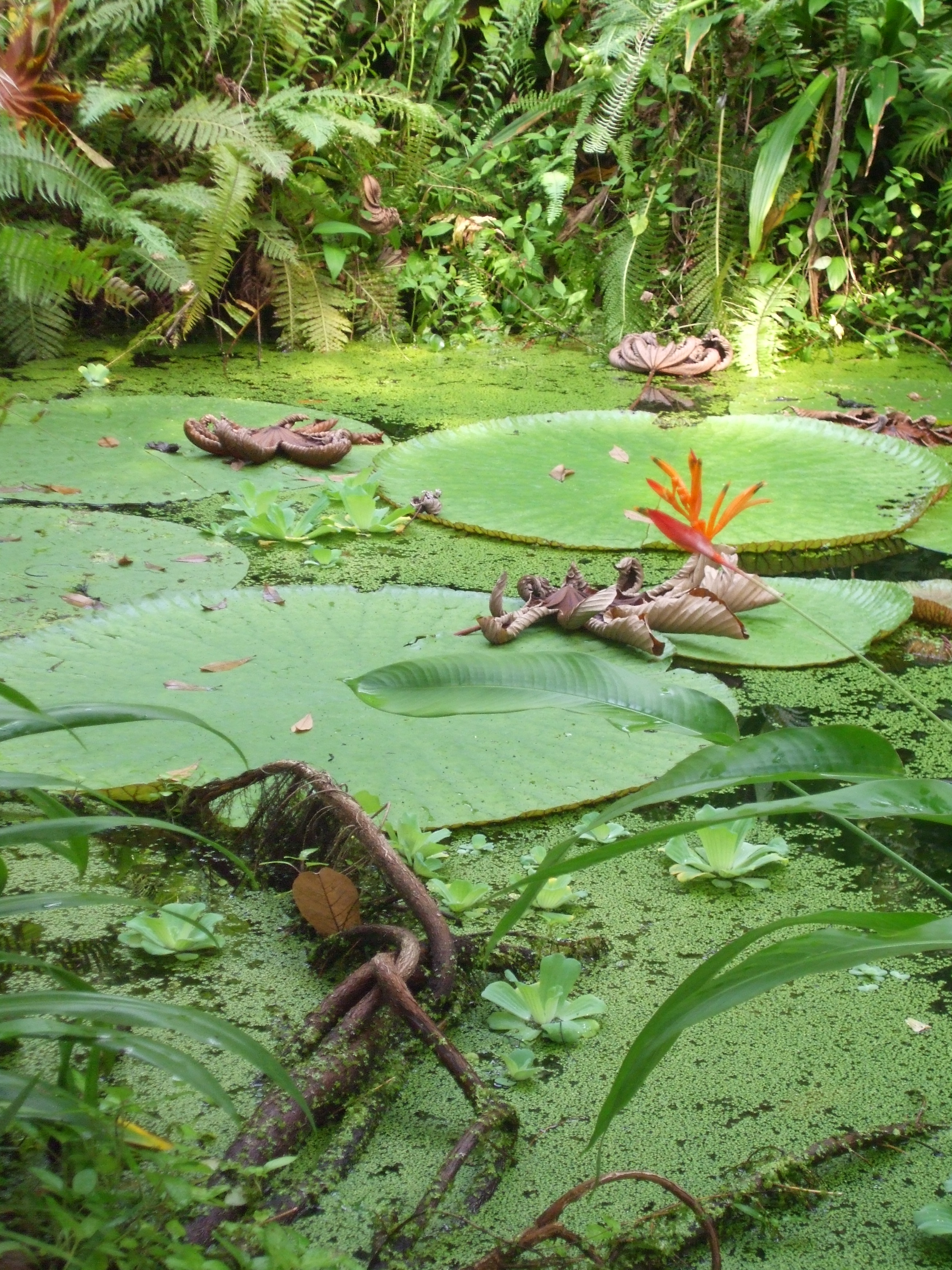 Tropical Plant in Eden Project